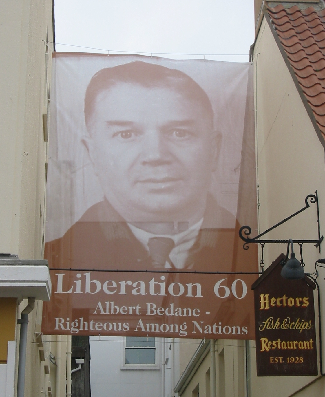 Albert Bedane, Righteous among the nations, sheltered a Jewish woman during the German occupation of Jersey. His portrait was among those displayed on a banner in St. Helier to mark the 60th anniversary of the Liberation.